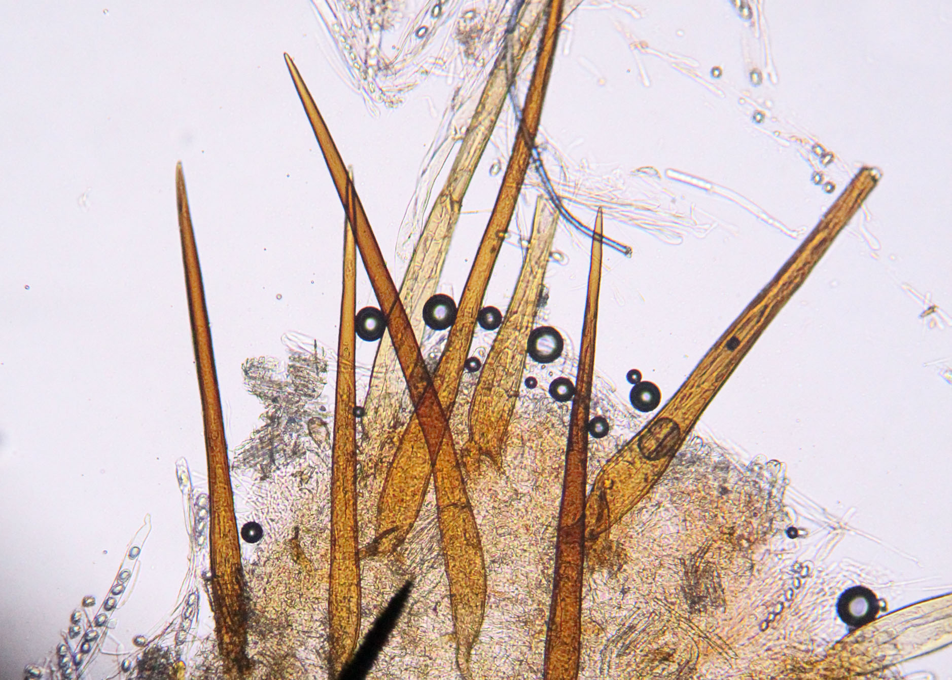 Scutellinia scutellata (L.) Lambotte Image location: Trail 162, Cherokee National Forest, Monroe Co., Tennessee, USA Found on fallen and well decayed Tsuga in mixed mesophytic forest. Recognized by sight Marginal hairs brown in KOH mount. For more information about this, see the observation page at Mushroom Observer.